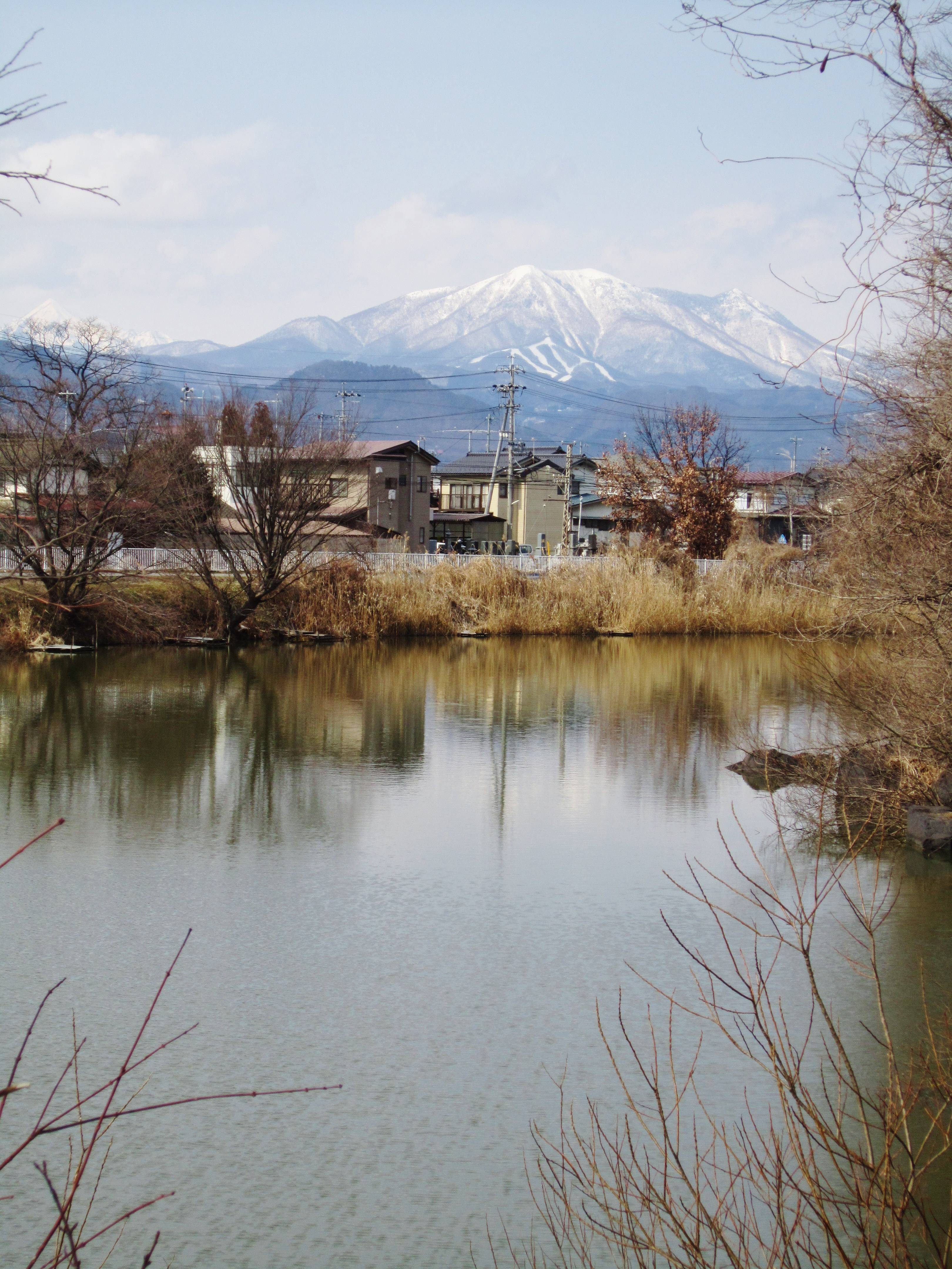 Kanai Pond and Mount Iizuna.